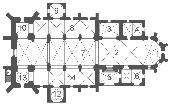 1. Pětiboký závěr 2. Presbytář 3. Kaple Panny Marie Vítězné 4. Stará sakristie 5. Jižní předsíň presbytáře 6. Nová sakristie 7. Hlavní loď 8. Boční loď - severní 9. Severní předsíň 10. Severní podvěží 11. Boční loď - jižní 12. Jižní předsíň 13. Kaple sv. Doroty - jižní podvěží